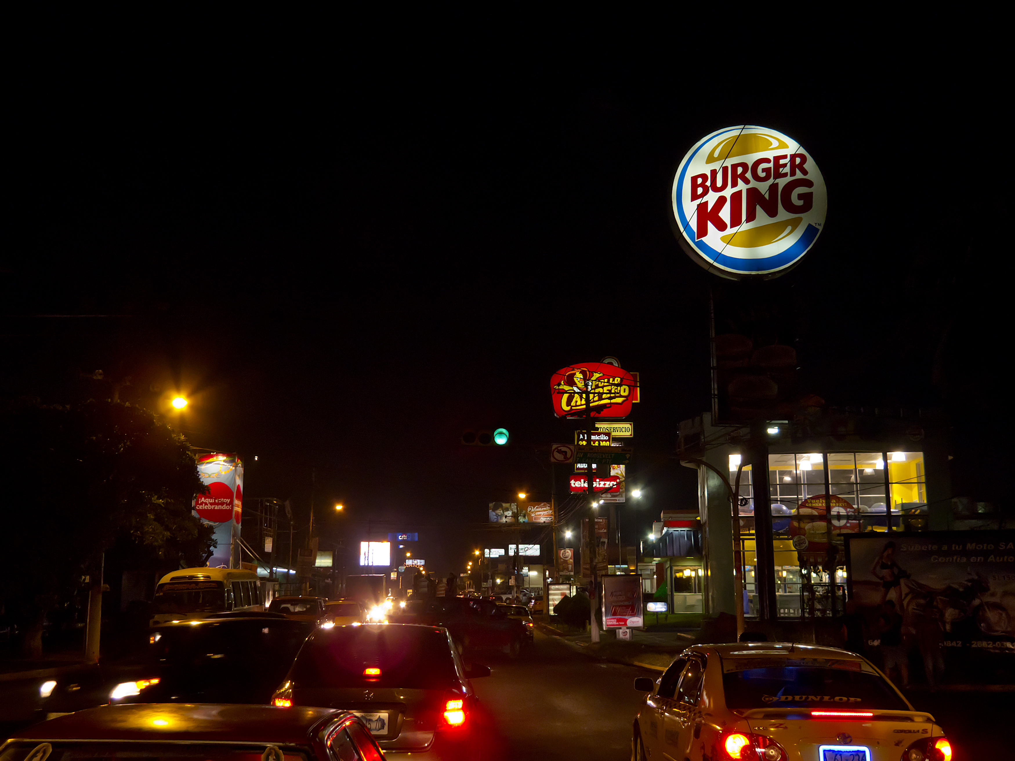 Roosevelt Avenue and 7th Street West (7a Calle Poniente) in San Miguel, El Salvador